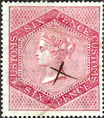 A British Customs entry duty revenue stamp from 1860. Surface-printed by De La Rue.